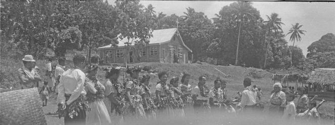 Inauguration of the Catholic church in Kolofoʻou village, Niuafoʻou (Tonga), in 1967.